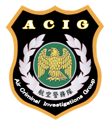 Badge of the Air Criminal Investigations Group (ACIG), Air Police Group.